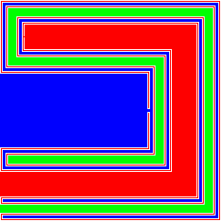 The image shows the first 5 stages of the Lakes of Wada.